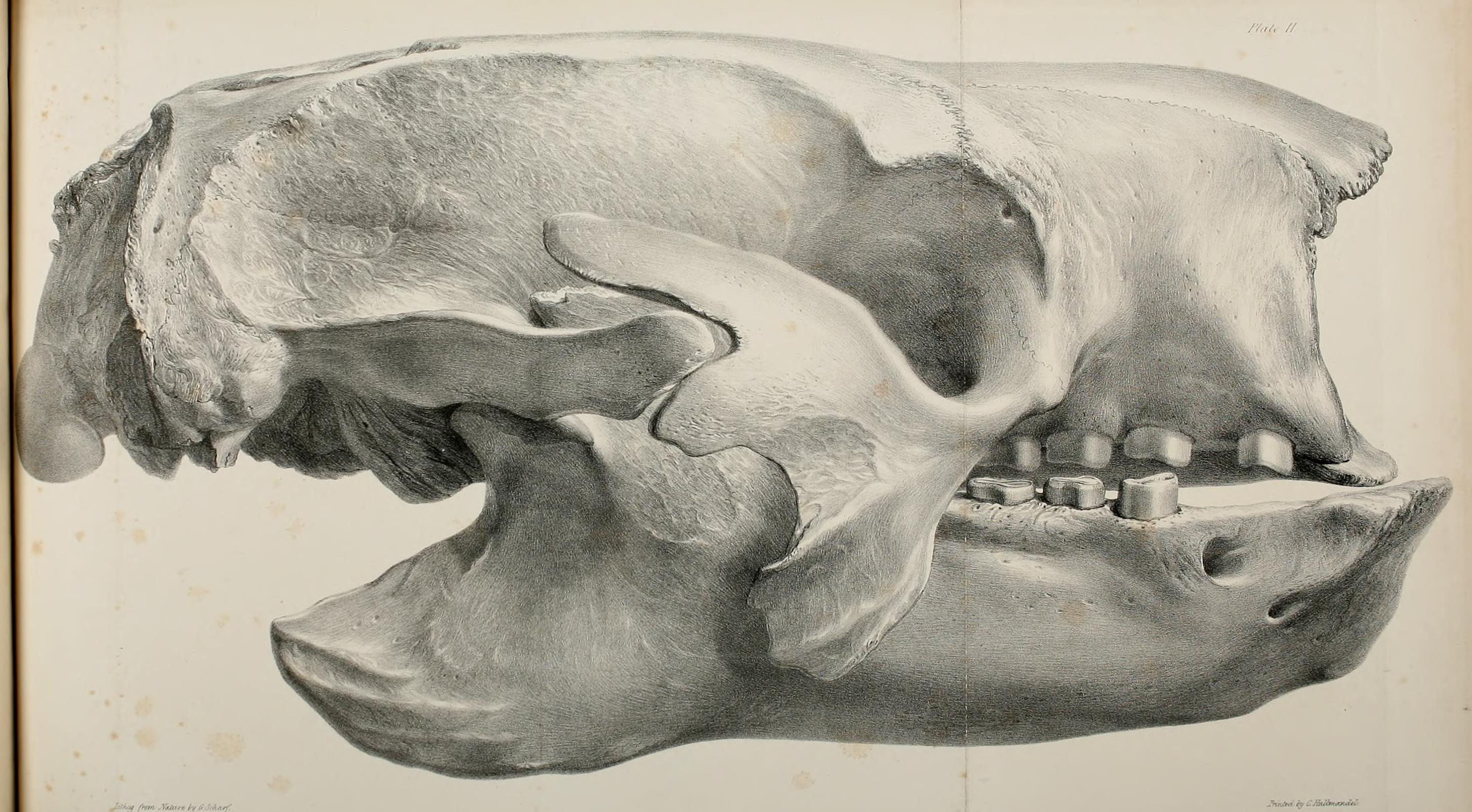 Description of the skeleton of an extinct gigantic Sloth, Mylodon robustus, Owen, with observations on ... Megatherioid quadrupeds in general /